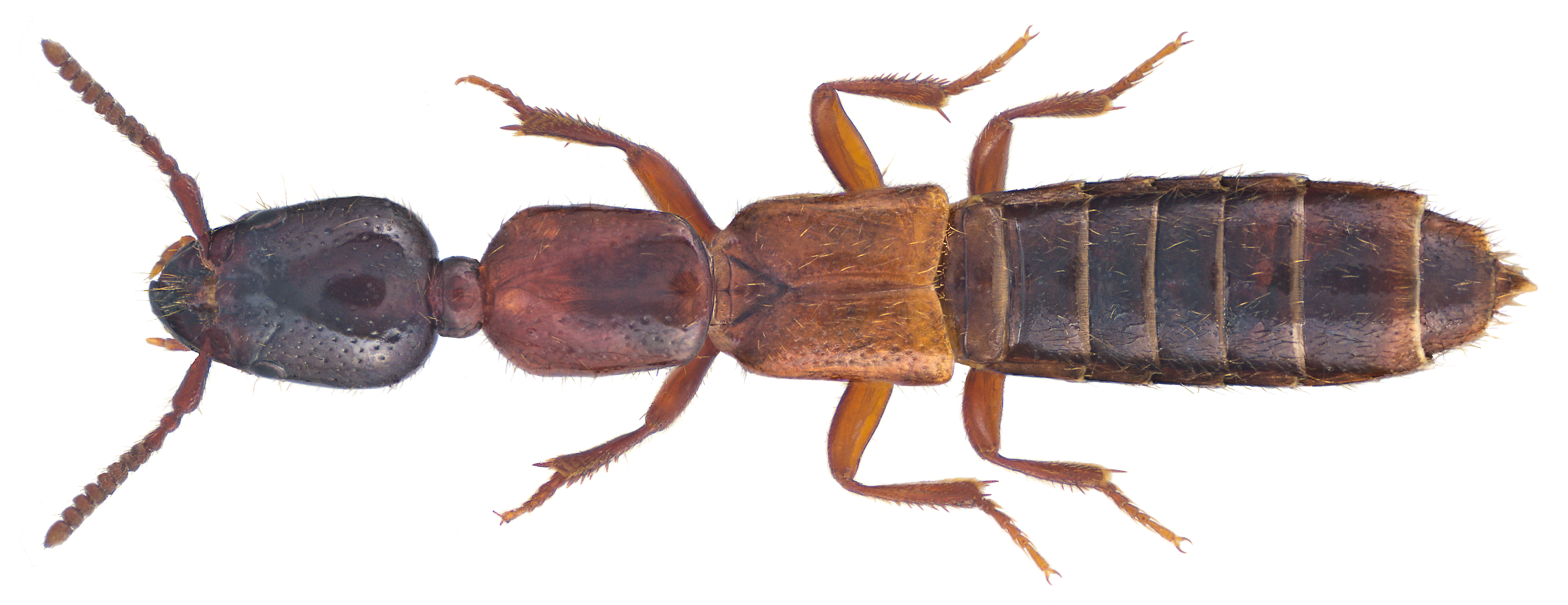 Family: Staphylinidae Size: 12,0 mm (9,0 to 12,0 mm) Origin: transpalaearctic Ecology: lives especially in sandy and acidic soils Location: Germany, Bavaria, Upper Franconia, Leuchau leg.det. U.Schmidt, 25.IV.1981 Photo: U.Schmidt, 2015